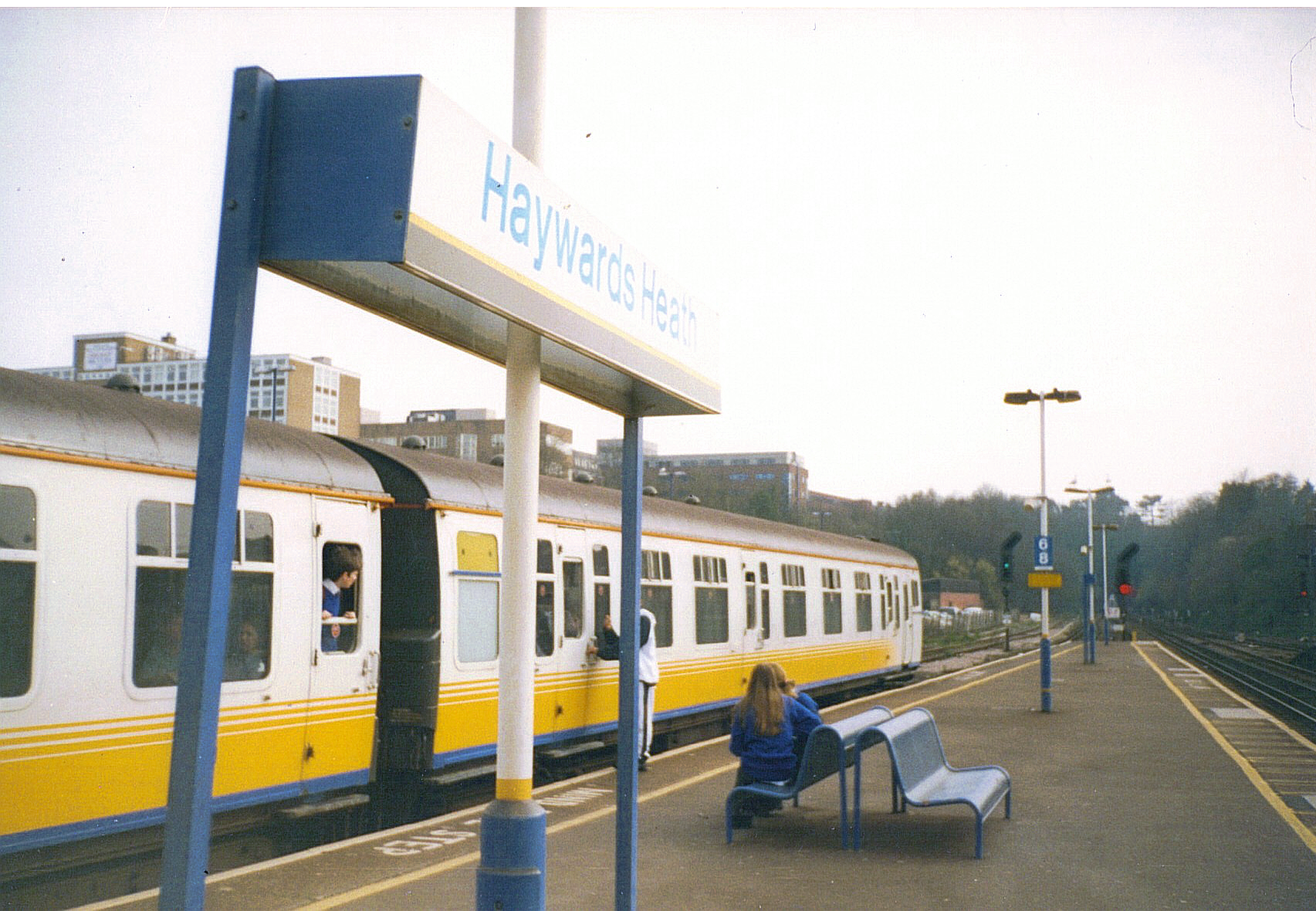 I took this picture of a former Connex South Central train in Haywards Heath station my self in 2002 and donate it to the public domain.